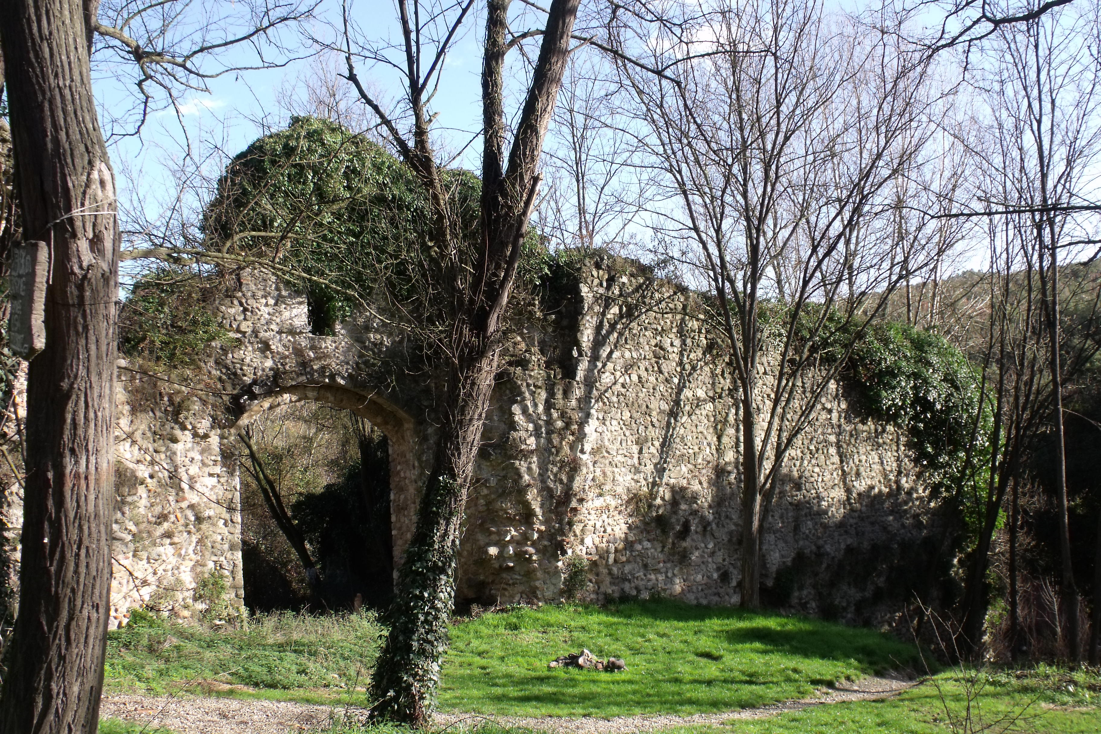 City wall ruins of Bagni di Petriolo, Monticiano, Province of Siena, Tuscany, Italy